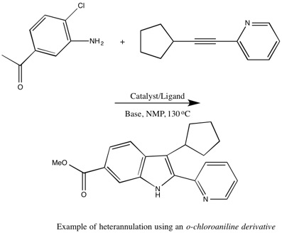 An example of heterannulation using o-chloroaniline by Li et al. Other information n.a.